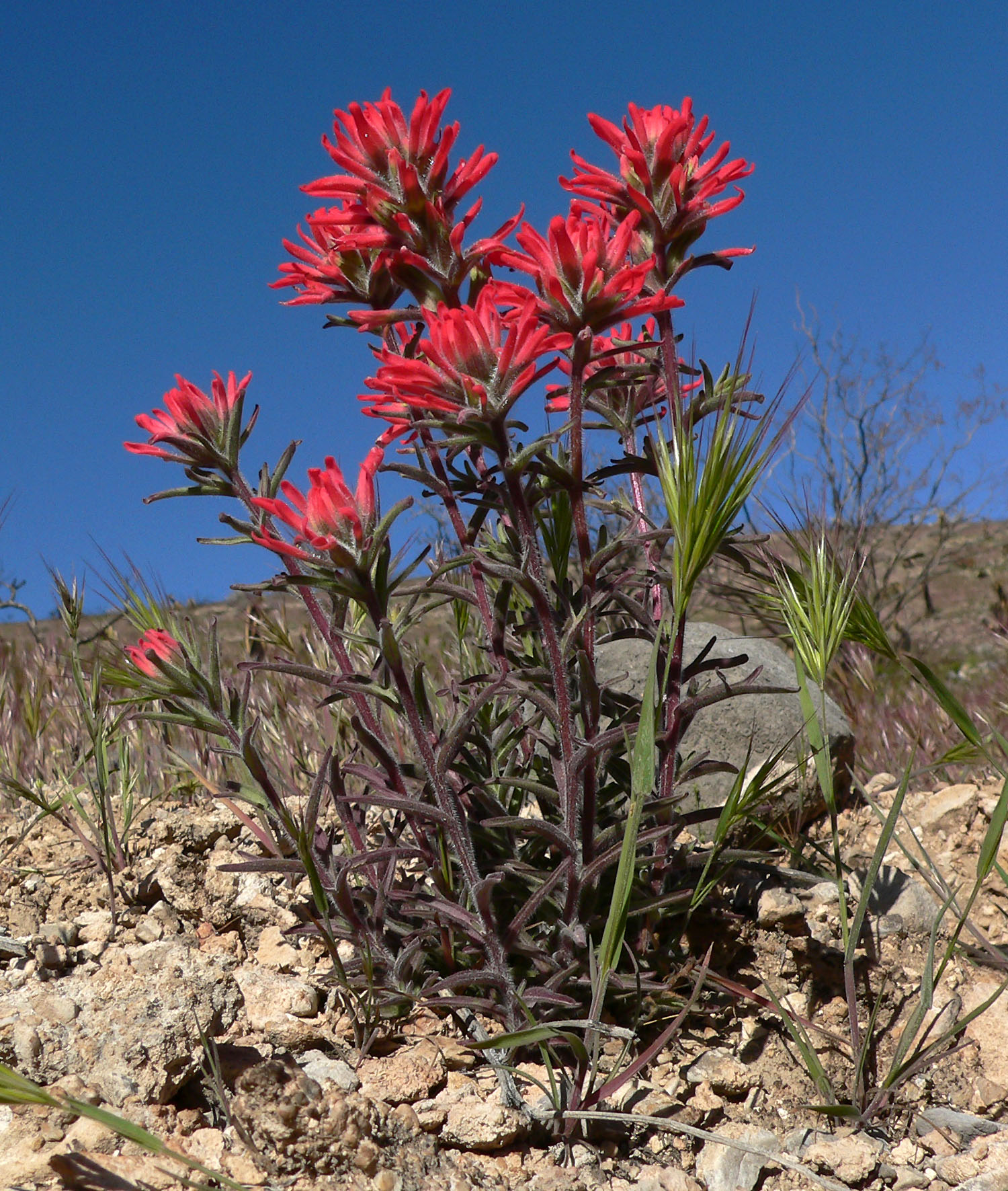 Castilleja angustifolia in Red Rock Canyon, Spring Mountains — in Clark County, southern Nevada.